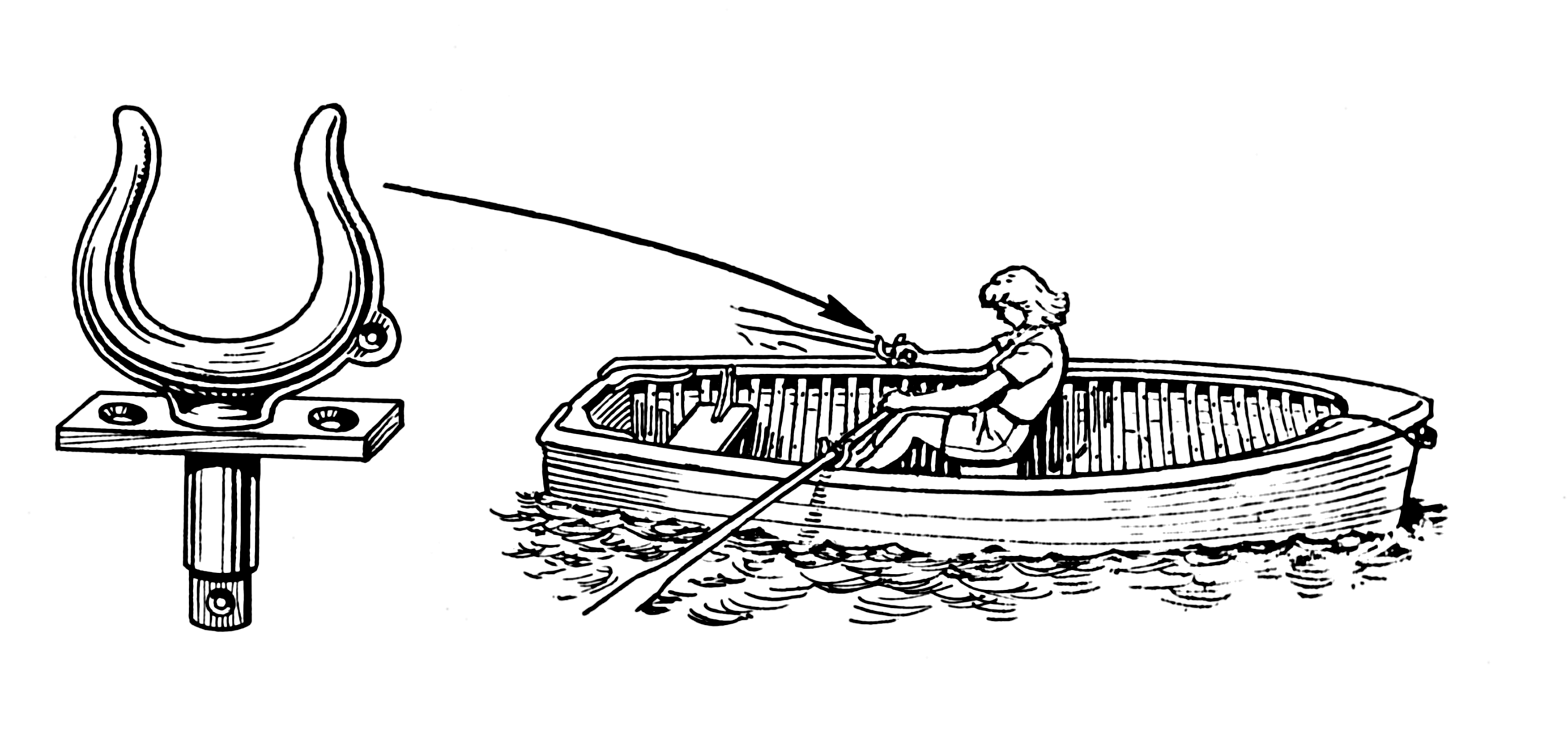 Line art drawing of oarlock.